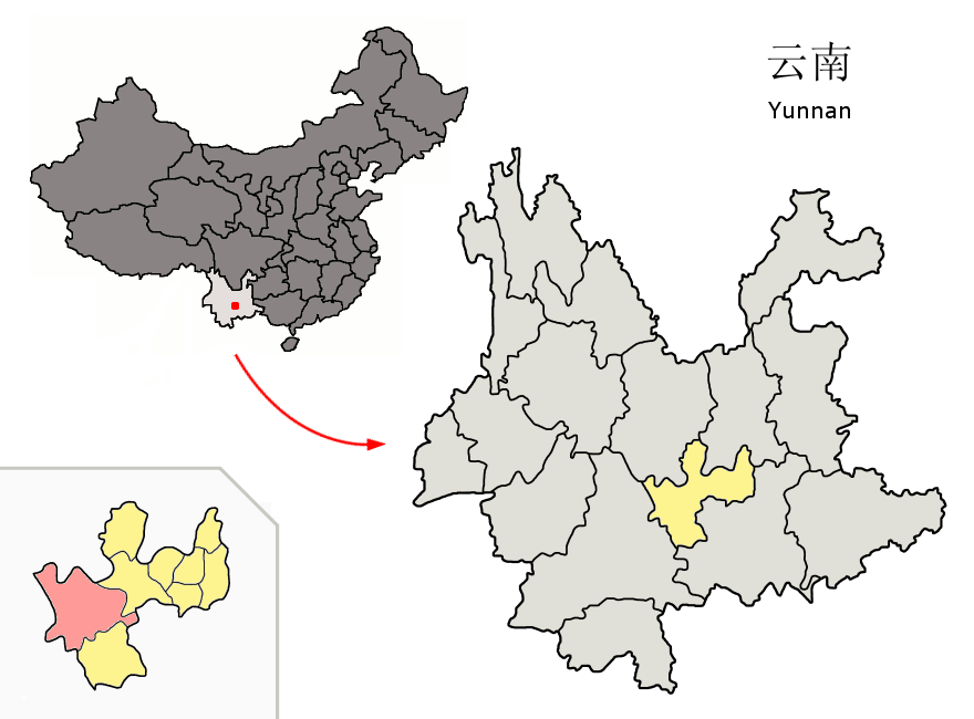 Location of Xinping County (pink) and Yuxi Prefecture (yellow) within Yunnan province of China Map drawn in september 2007 using various sources, mainly : Yunnan province administrative regions GIS data: 1:1M, County level, 1990 Yunnan Counties map from